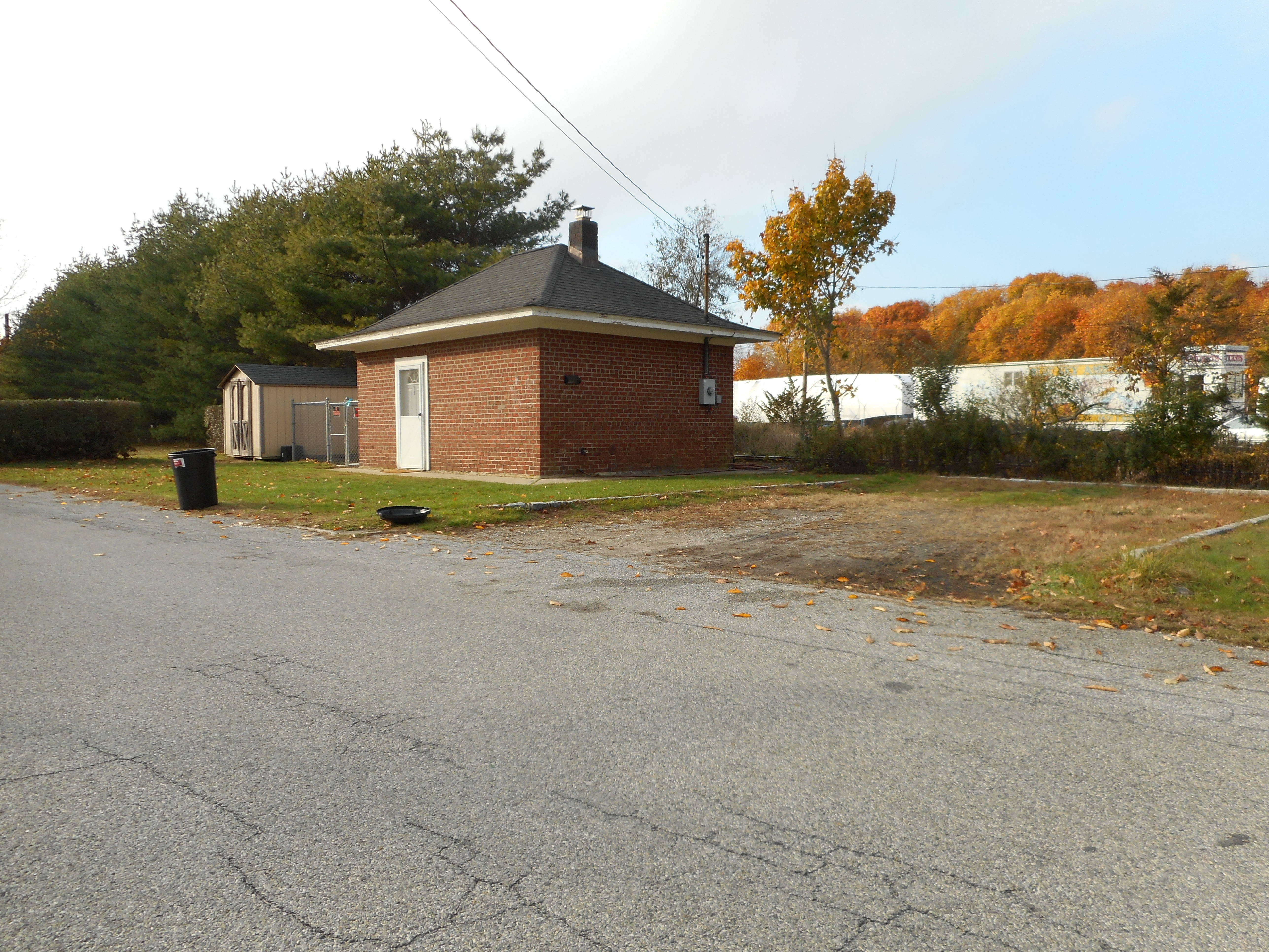 The former East Moriches Long Island Rail Road station along Railroad Avenue east of Pine Street in East Moriches, New York. Due to the fact that the former station is a private residence with a few threatening "No Trespassing" type signs, the capture of this image required a sneak attack, which I do not recommend carrying out on a regular basis.